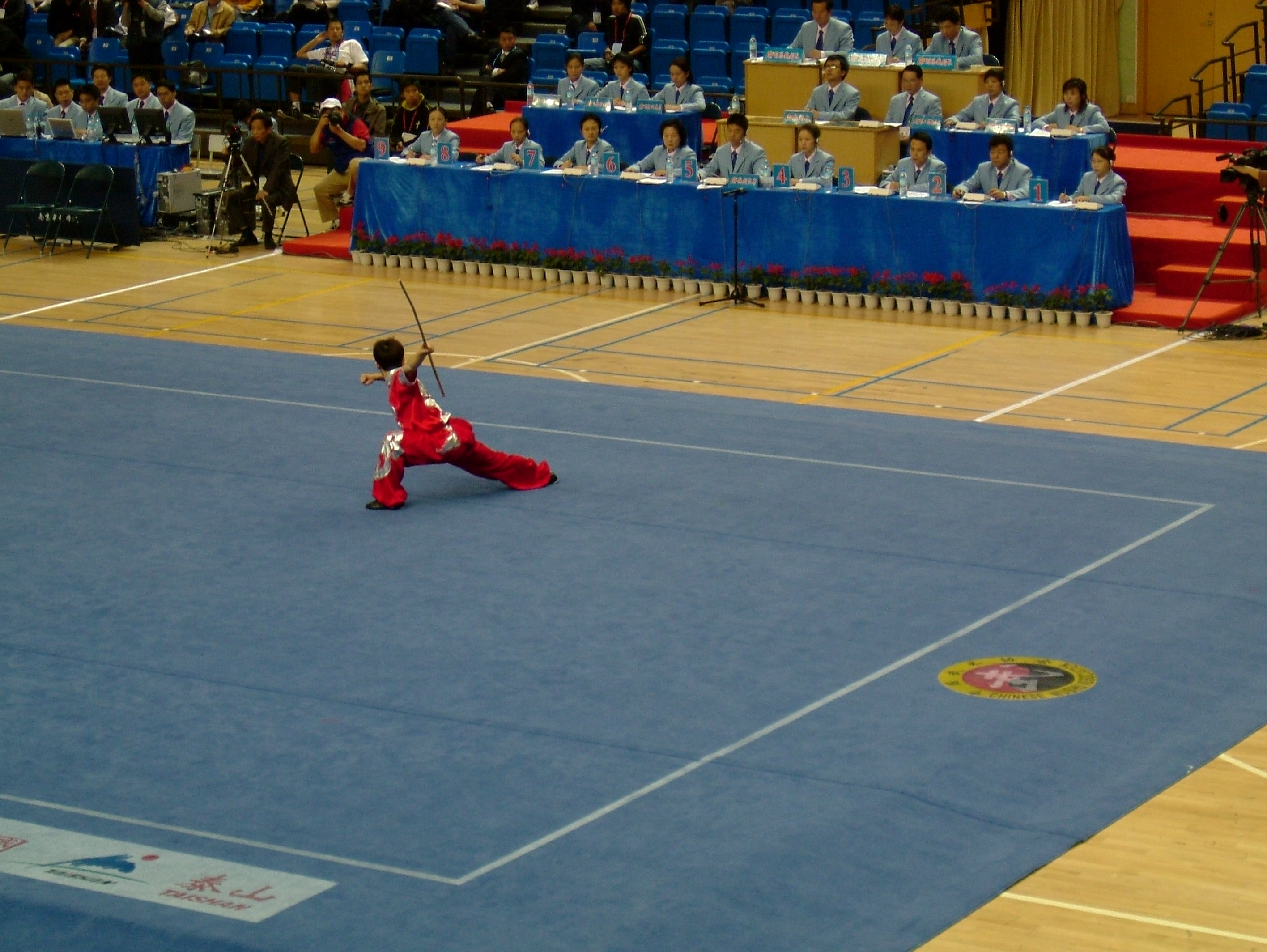 Gun (staff) event at the 10th All China Games.